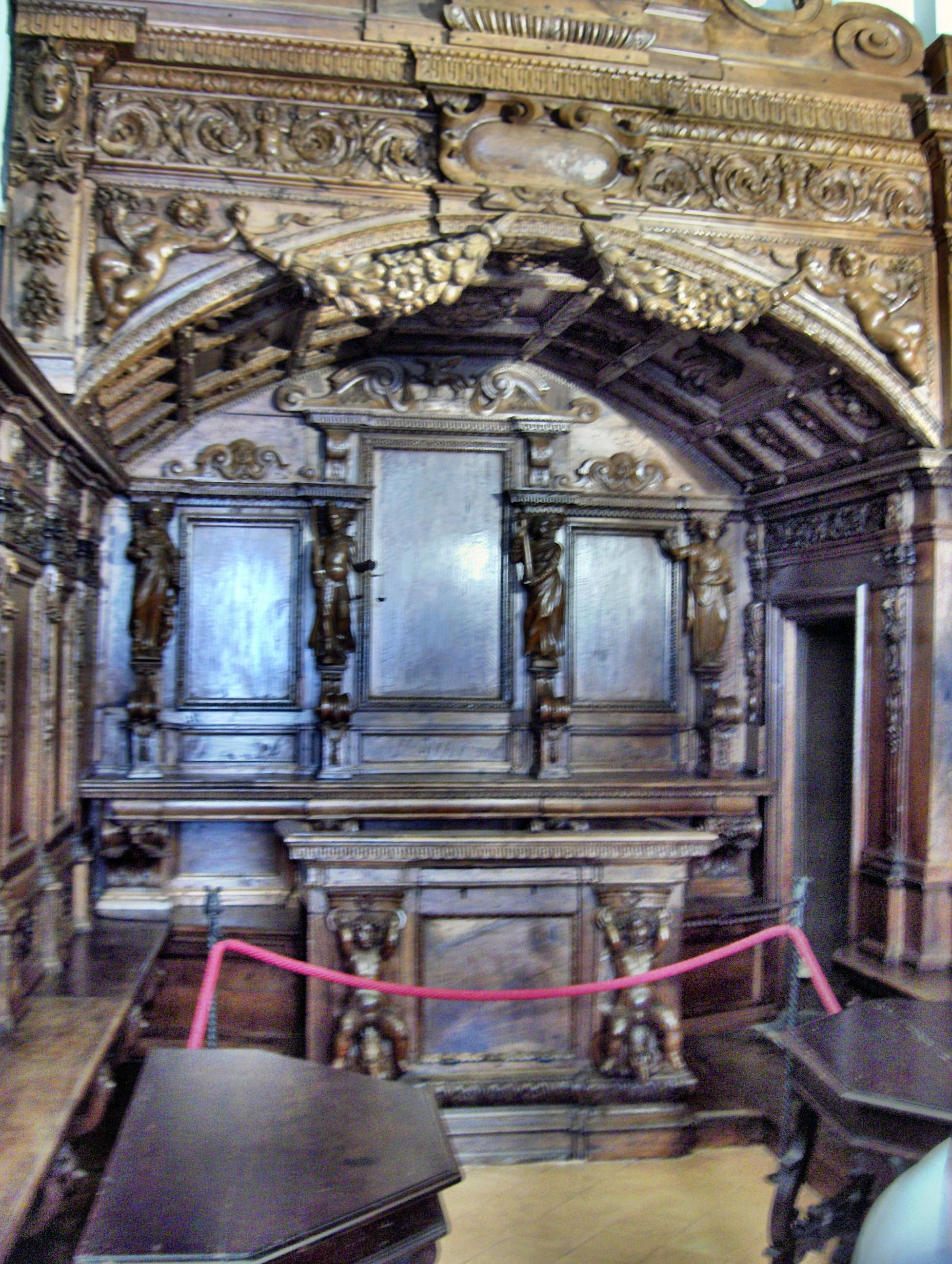 Collegio del Cambio : Sala dei legisti, Perugia, Italy ; wooden stalls carved by Gianpietro Zuccari and assistants (1615-1621)